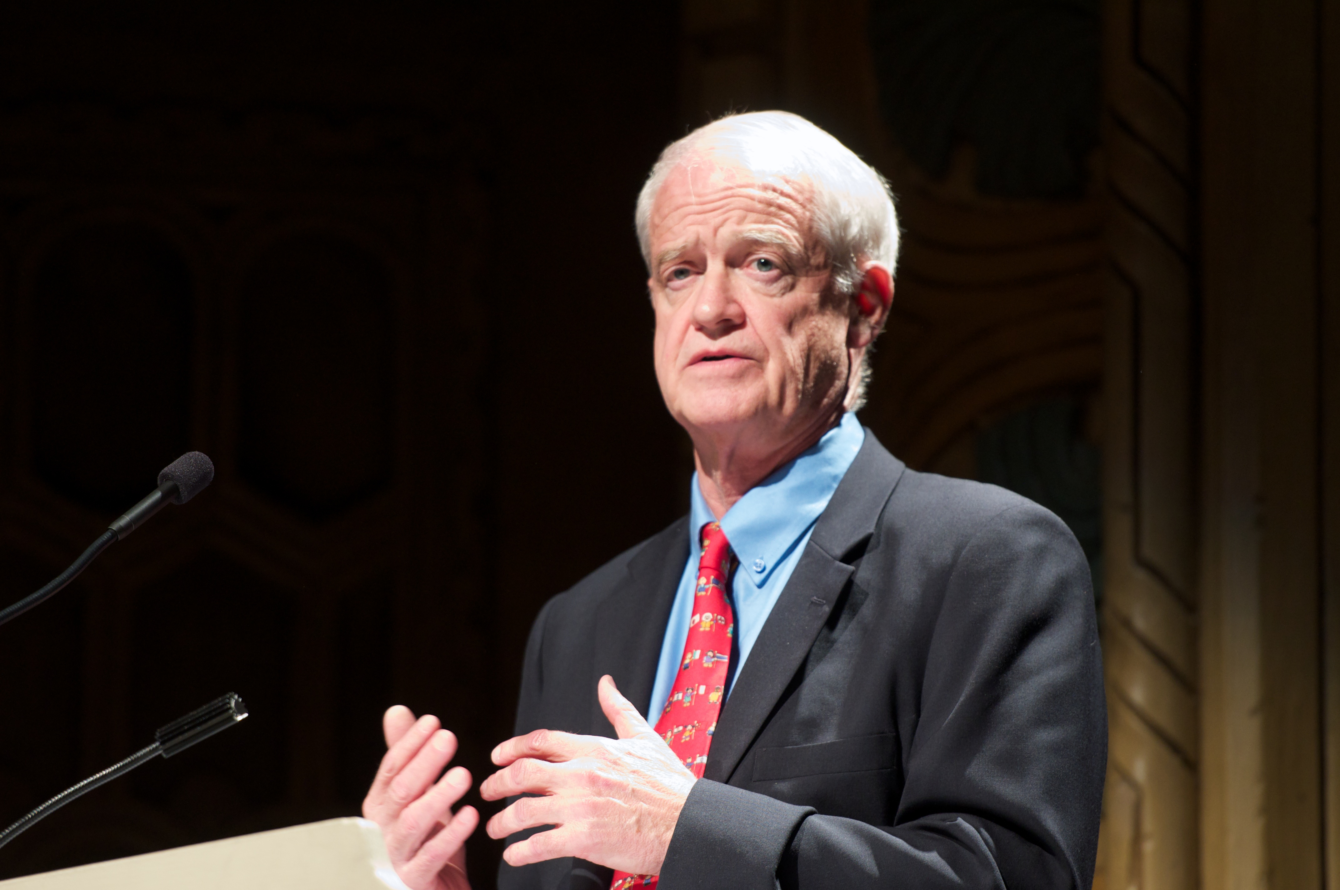 Peter Courtney ILA 2011 welcome